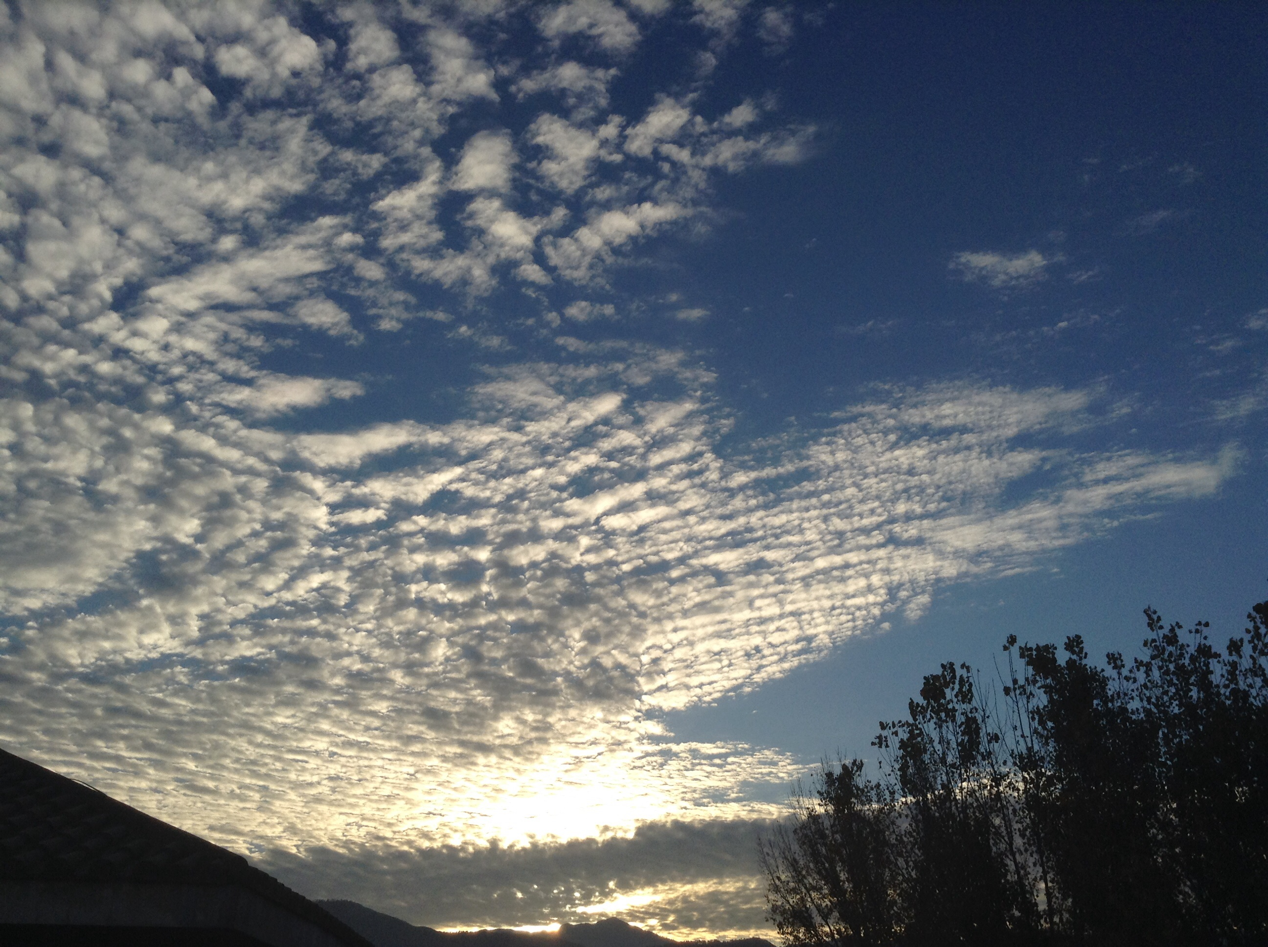 Sunrise scene giving a beautiful shining effect to clouds.